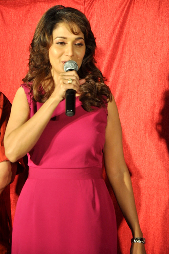 Madhuri Dixit unveils first look of 'Shirin Farhad Ki Toh Nikal Padi'